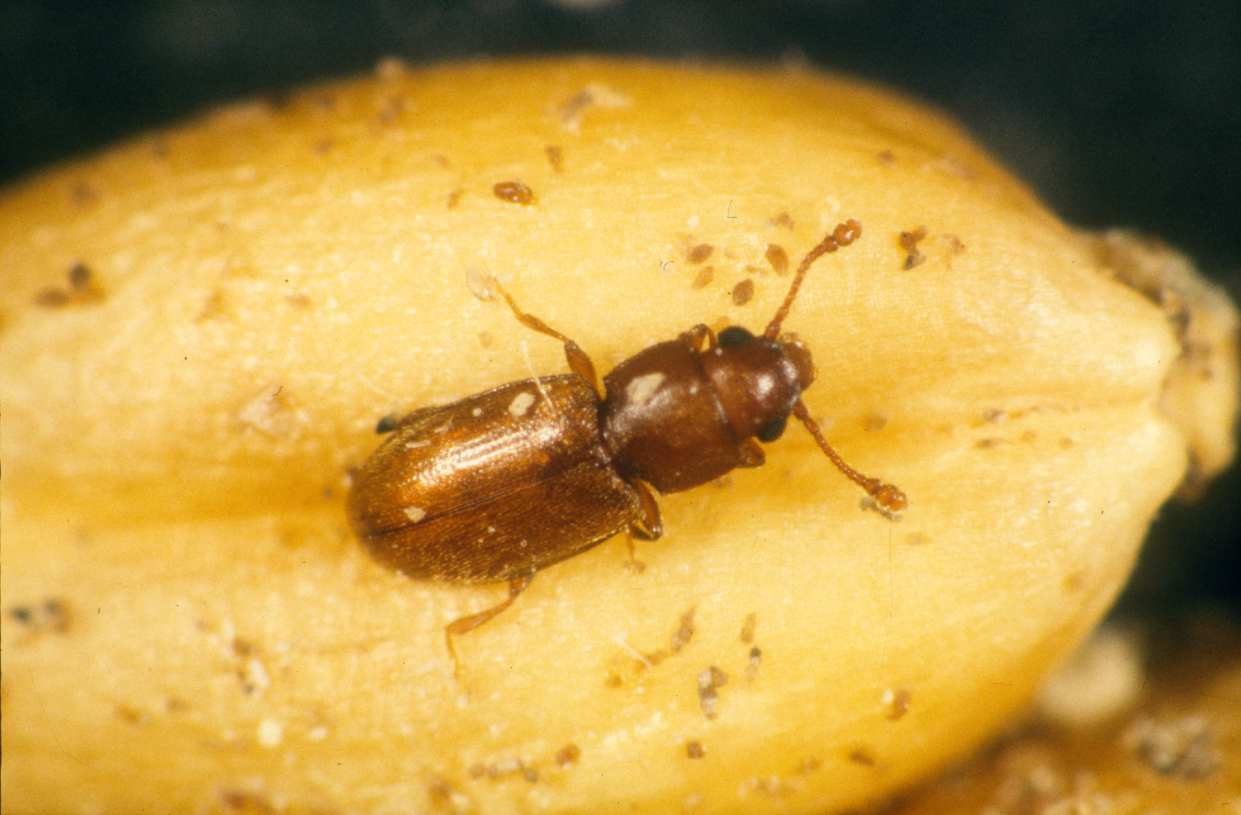 The foreign grain beetle, Ahasverus advena. This beetle is very flattened, light brown and has a thorax with a blunt 'tooth' at the corners. Minor pest and mould feeder on a wide range of stored products especially if damp.